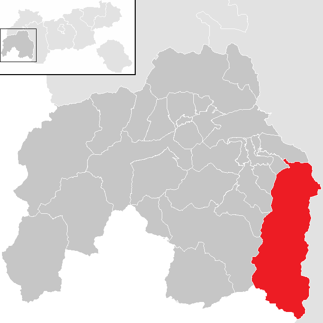 District Landeck